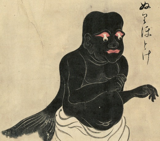 Nuribotoke (an animated corpse with blackened flesh and dangling eyeballs) from the Hyakkai-Zukan